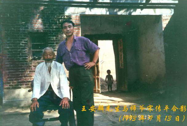 kungfu